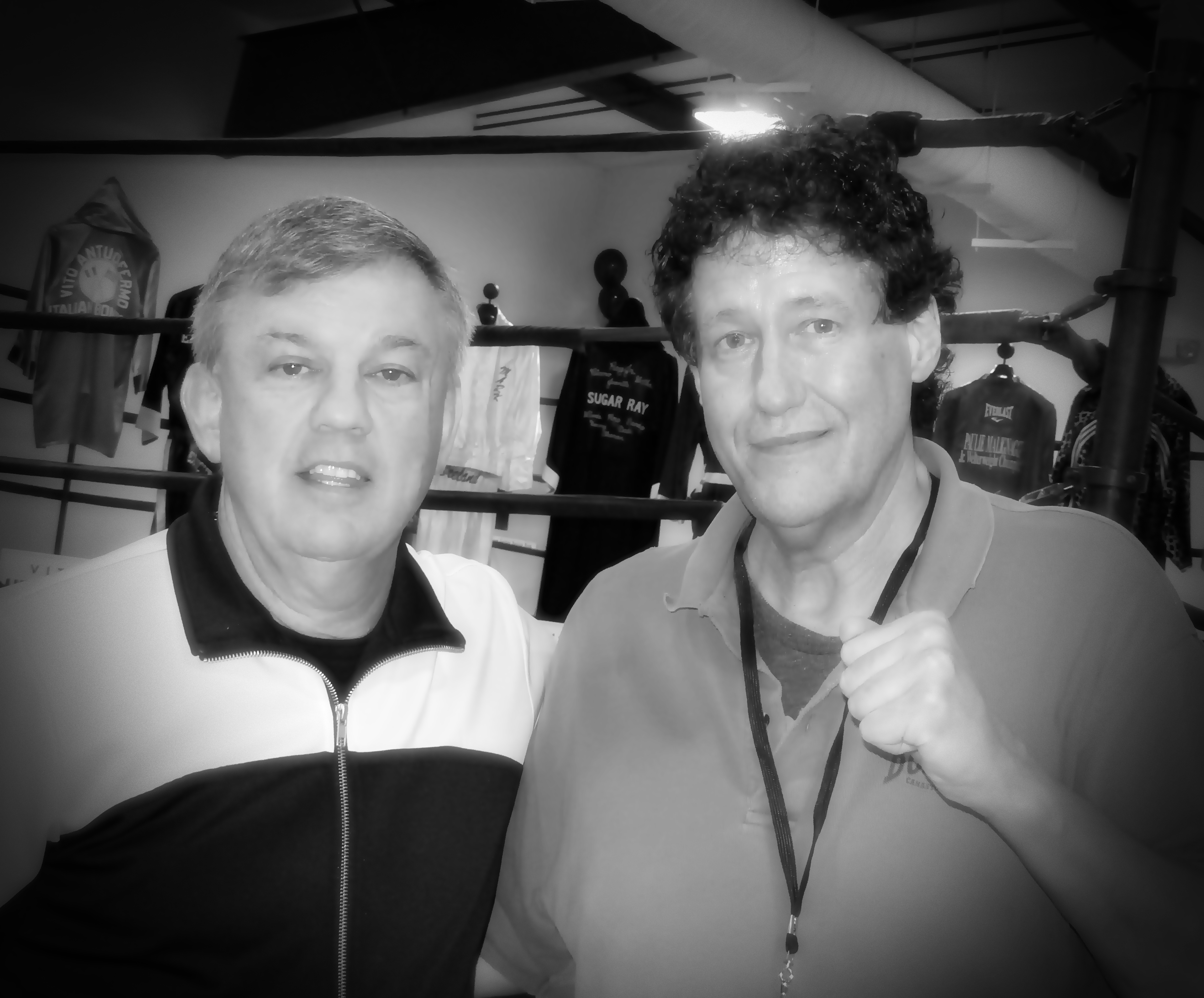 Mark Allen Baker is a noted author(over 20 books) and historian.